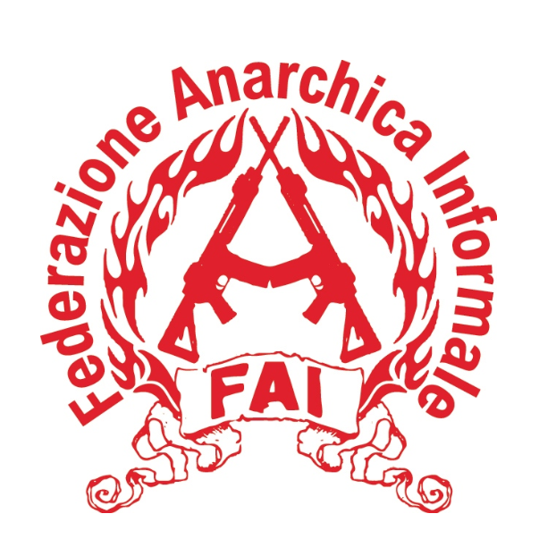 Logo used by cells adhered to the FAI